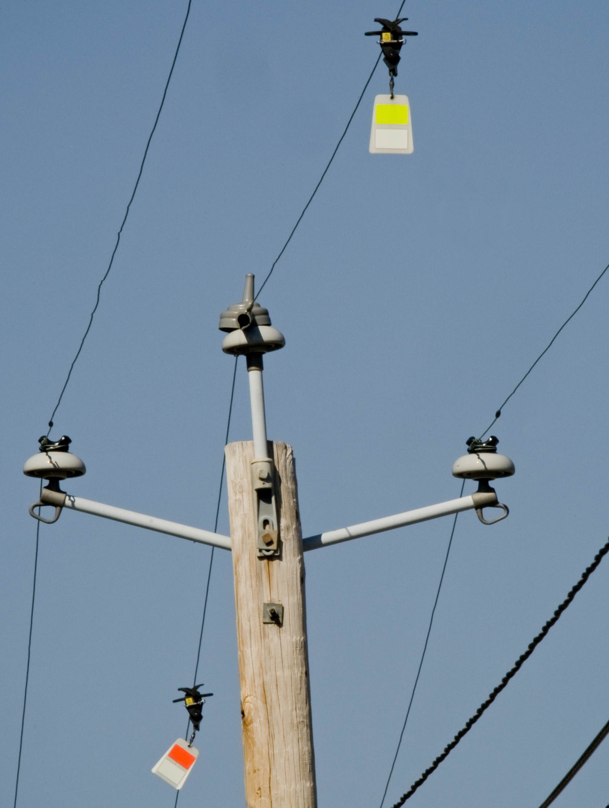 INDIAN HEAD, Md. (March 4, 2010) The electrical distribution system at Naval Support Facility Indian Head, Md., is retrofitted with flight diverters on utility lines, plastic phase covers and fiberglass cross arms to prevent mortalities of the bald eagle population on the base. Environmental specialists from the base recorded 13 bald eagle deaths from 2001 to 2005 and attributed 11 deaths directly to electrocutions and line-strikes. The effort is part of an initiative designed to keep the habitat safe for raptors. (U.S. Navy photo by Mass Communication Specialist 1st Class R. Jason Brunson/Released)